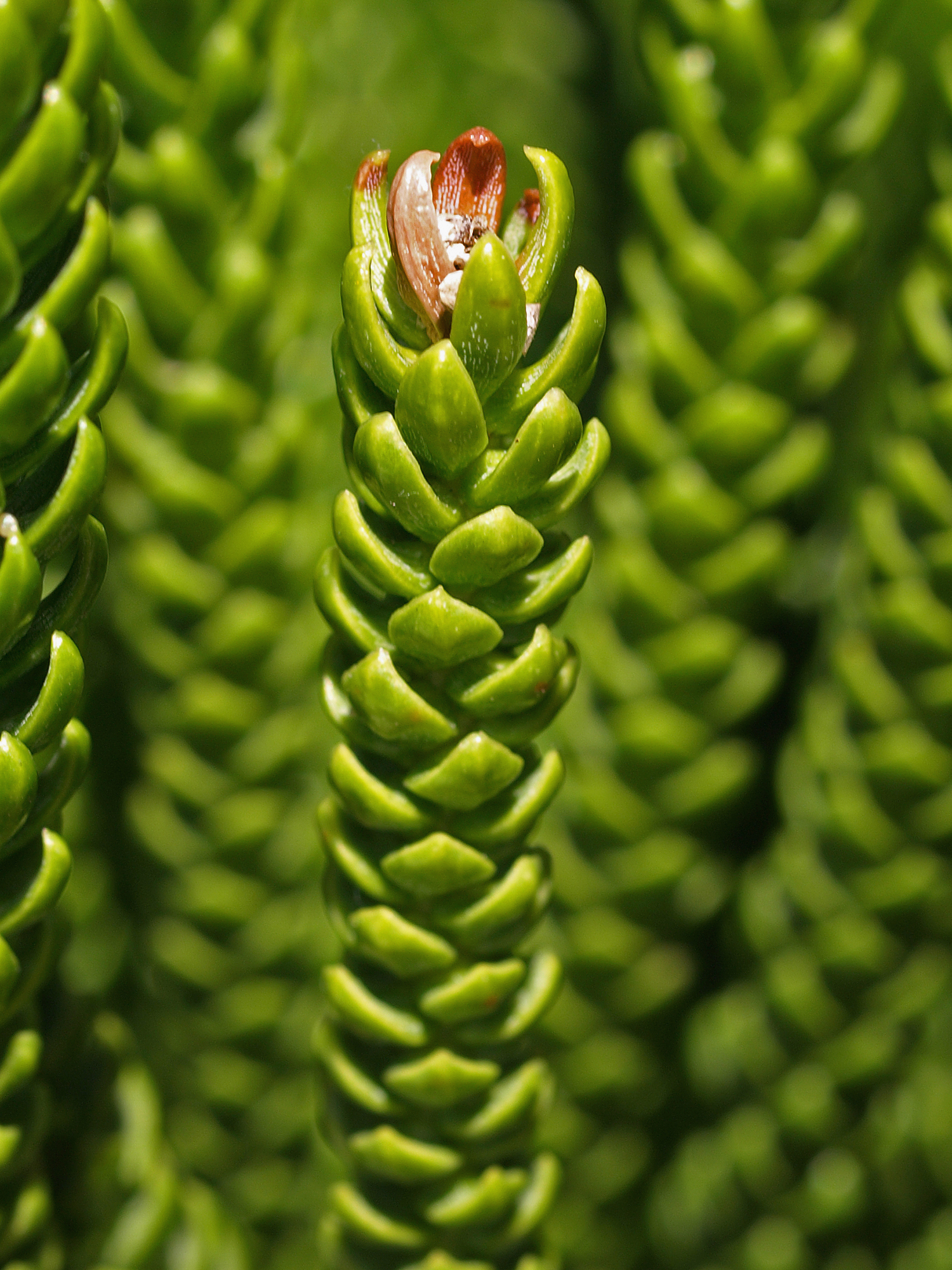 Araucaria heterophylla